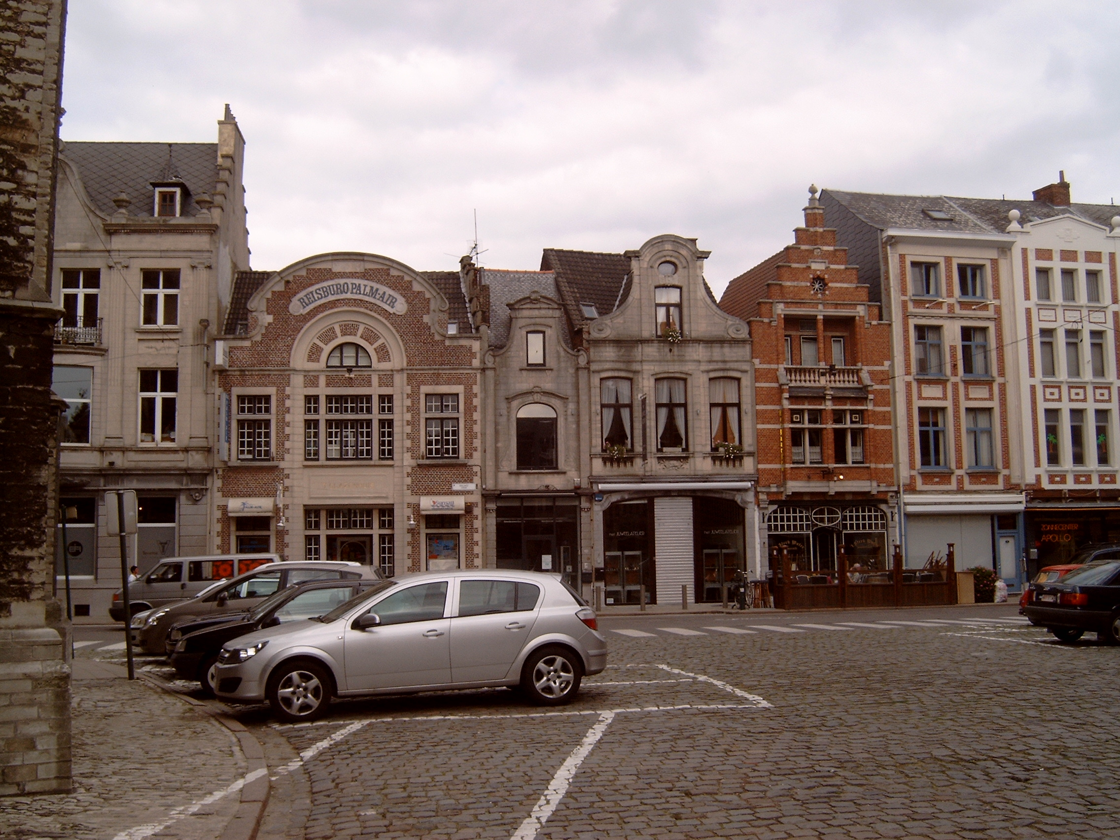 Lier, monumental buiuldings near church